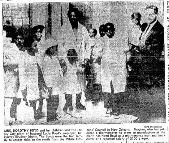 Harvey Jerome Brudner (1931-2009) in the Simpson's Leader-Times of Kittanning, Pennsylvania on 11 May 1962